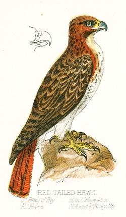 (Removed after reusableart request.)